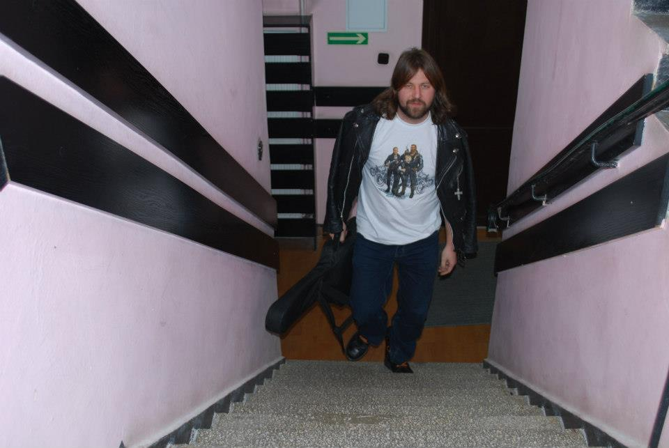 Jakub Ćwiek in Lubin